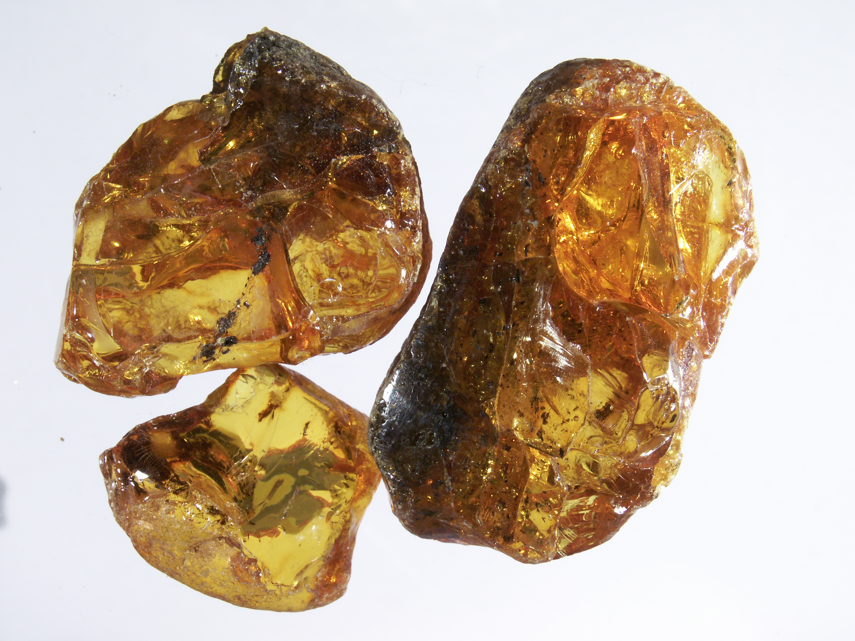 Amber from Bitterfeld, gedanite